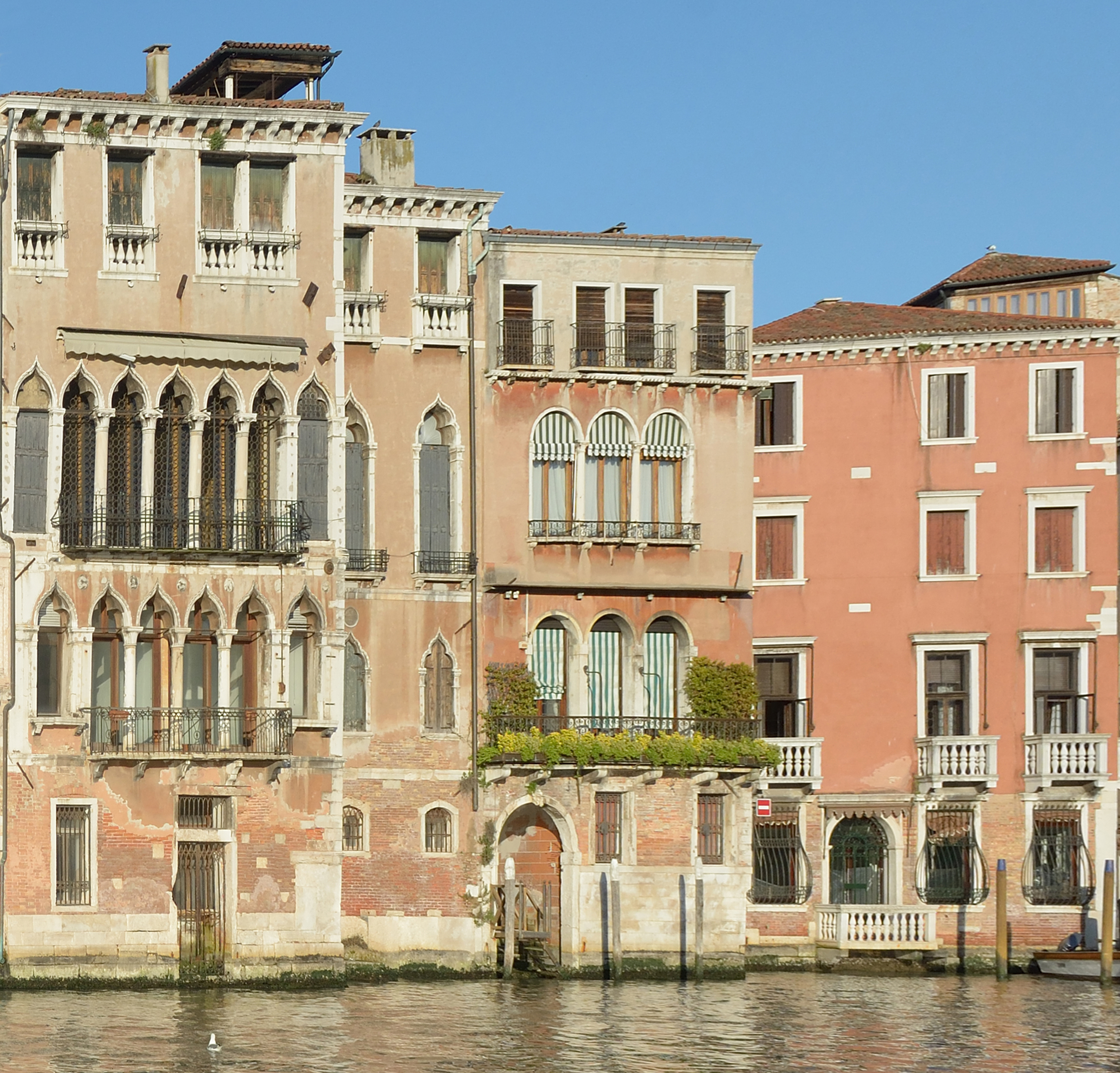 The Ca' da Mosto palace and Palazzo Dolfin in Venice. View from the Canal Grande.